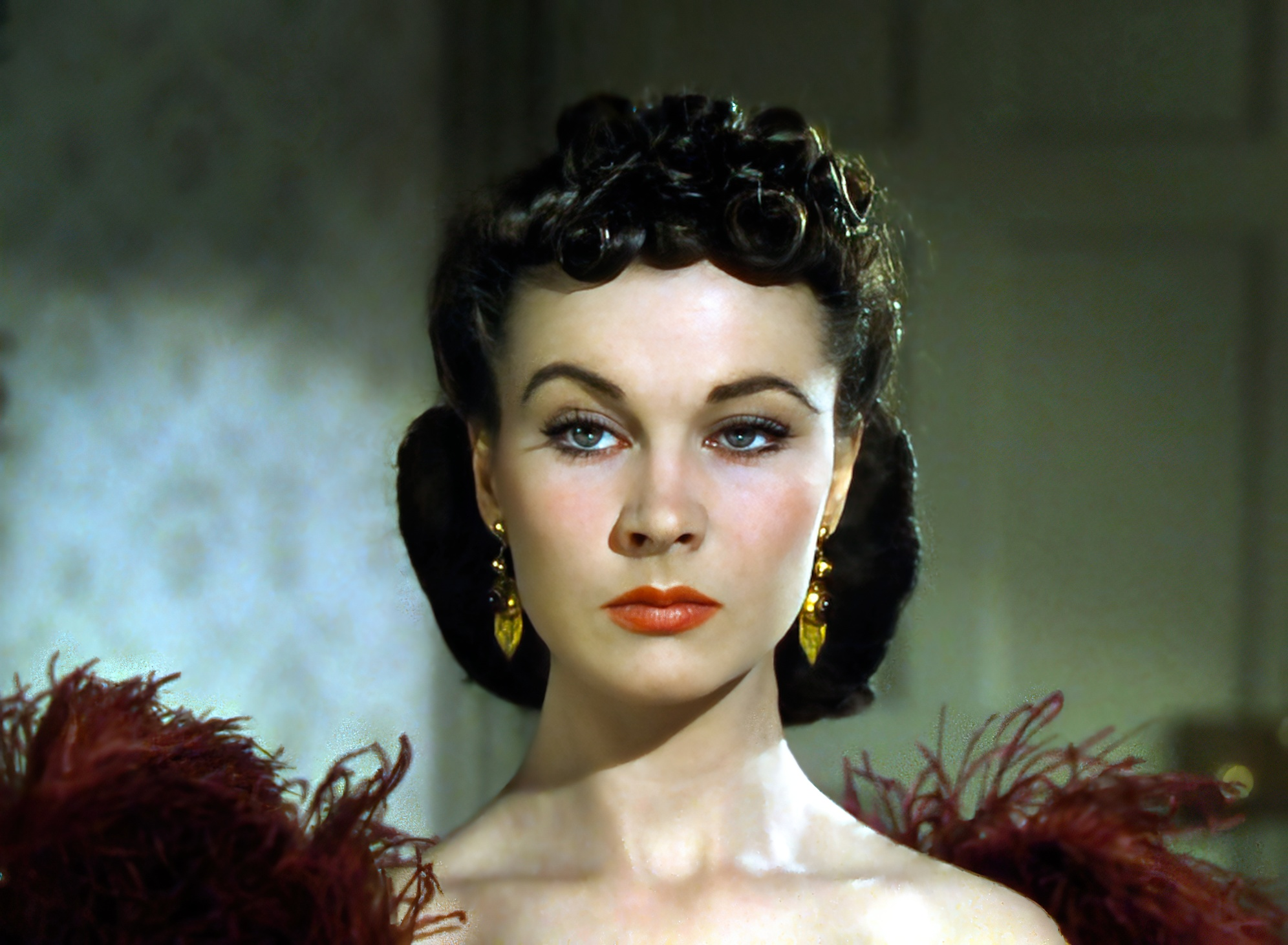 Cropped screenshot of Vivien Leigh from the trailer for the film Gone with the Wind